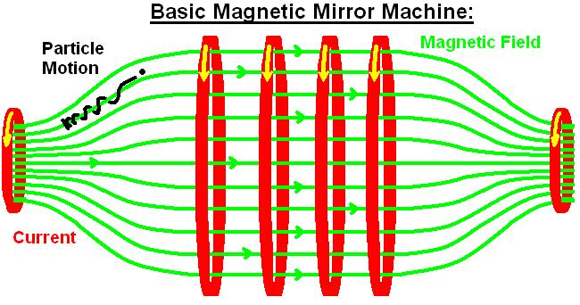 This shows a basic magnetic mirror machine which has been used to confine plasma. Charged particles experience a Lorentz force which causes them to corkscrew back and forth inside a magnetic field.